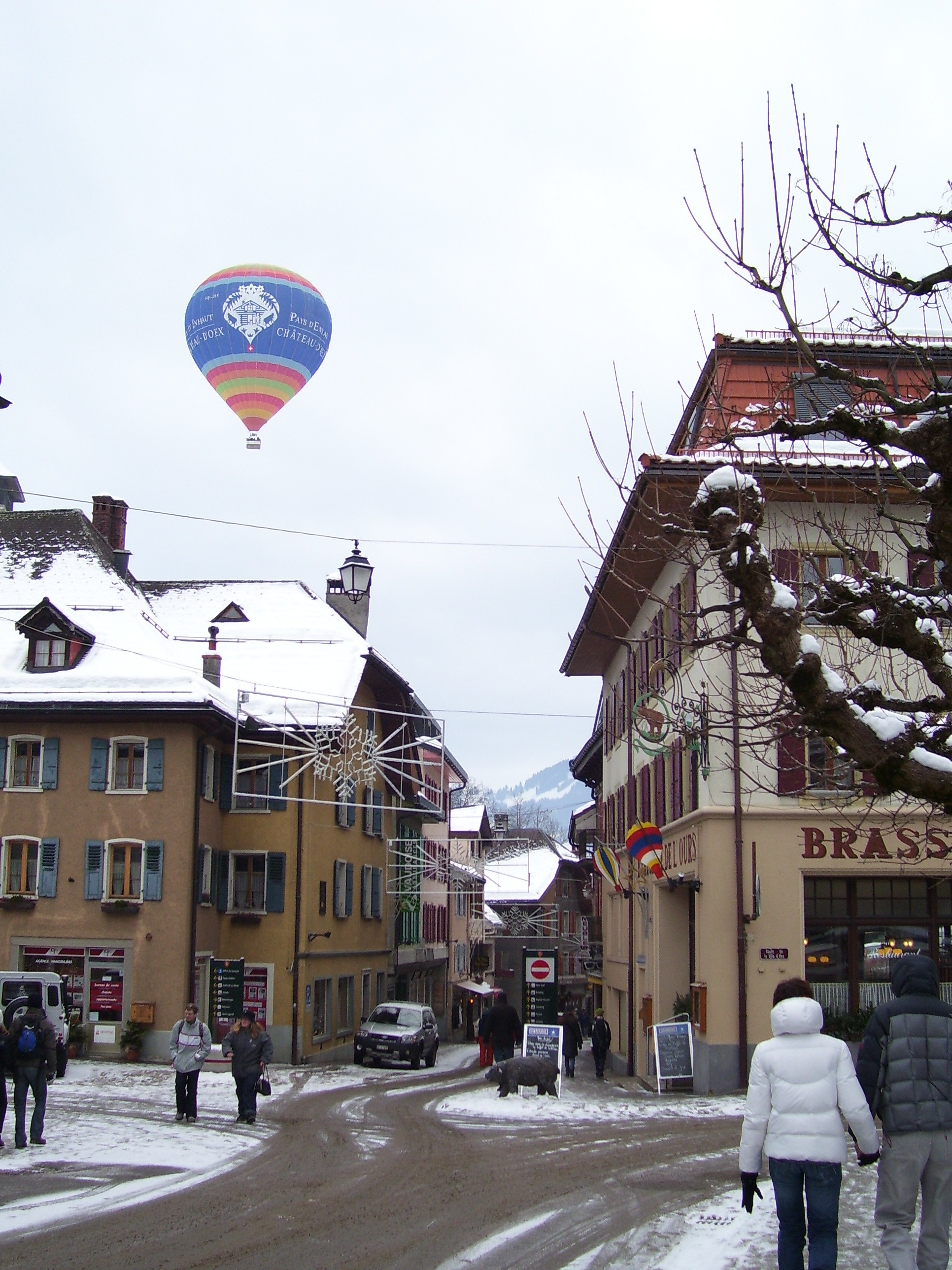 Chateau-d'Oex during the balloon festival.